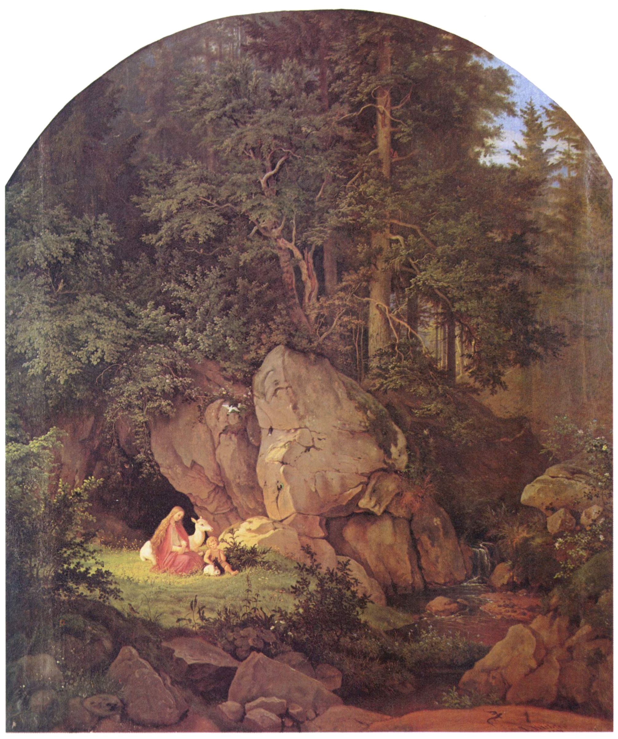 Genoveva in the Wood